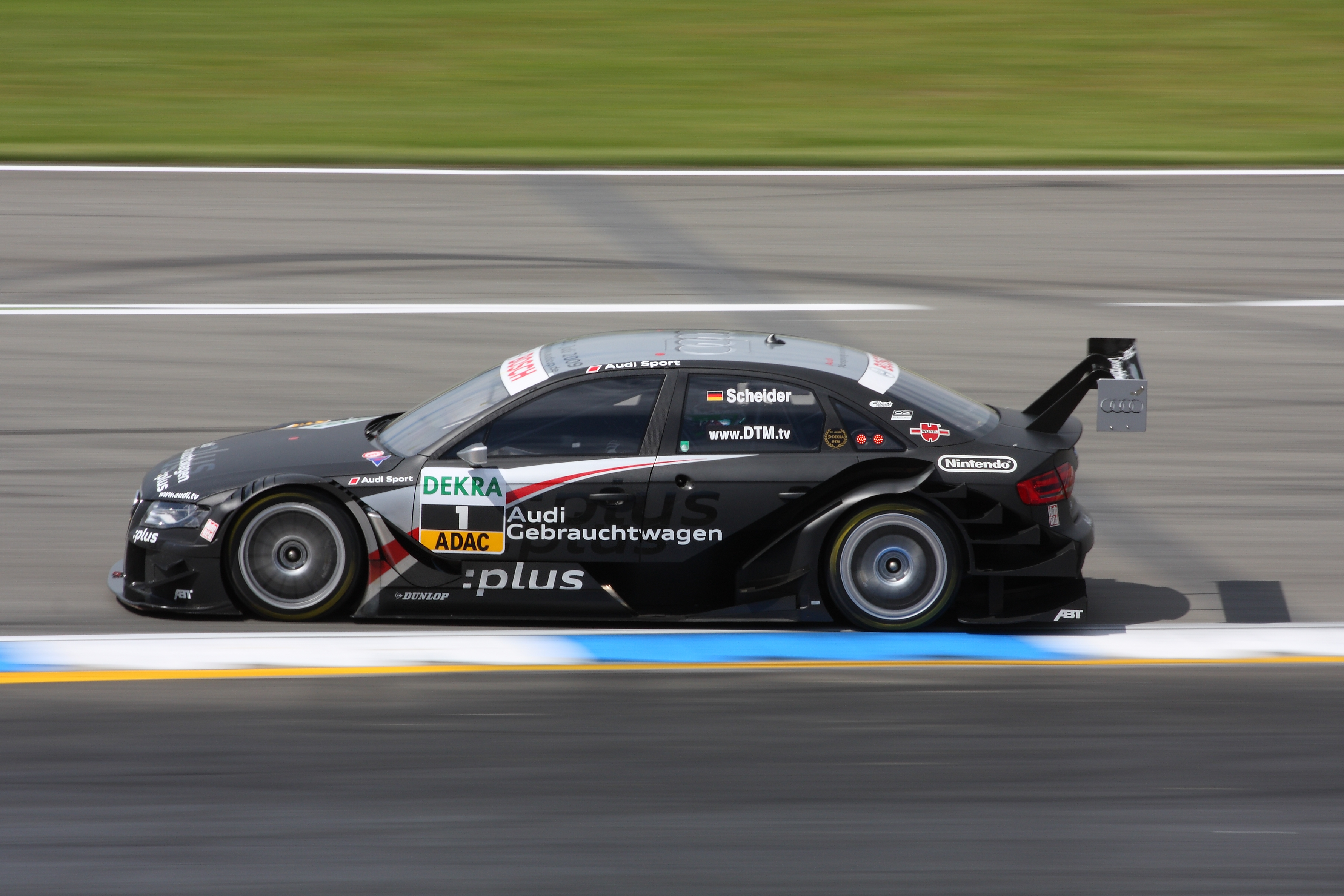 DTM racing car Audi Season 2009, Timo Scheider (driver).